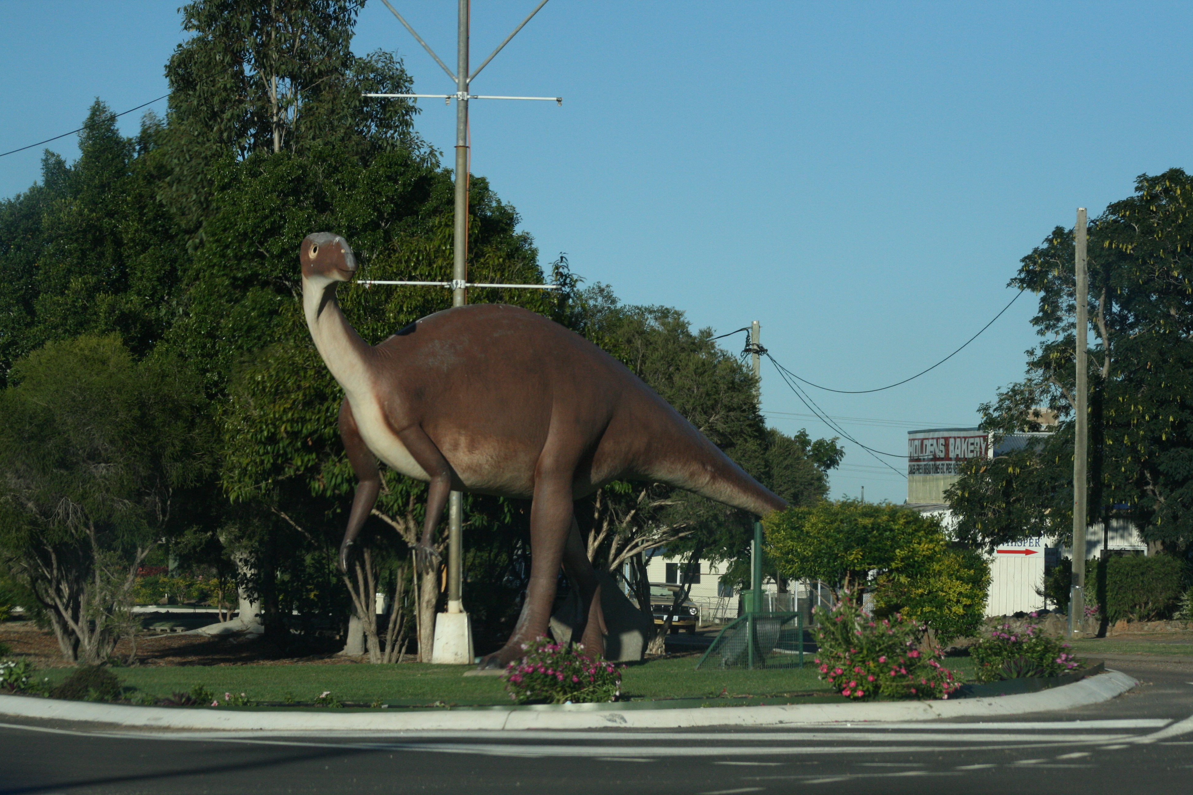 Muttaburrasaurus statue in Hughenden, outback Queensland, Australia